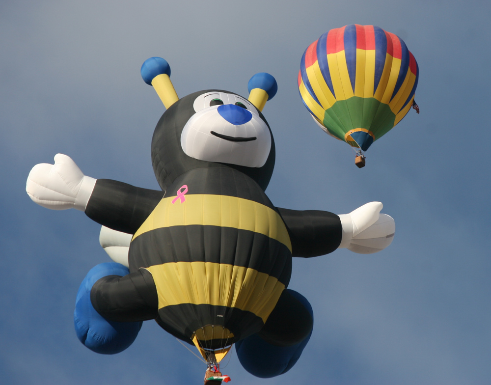 The Special Shape Rodeo event is expecting over 100 special shapes in the Albuquerque International Balloon Fiesta 2012.